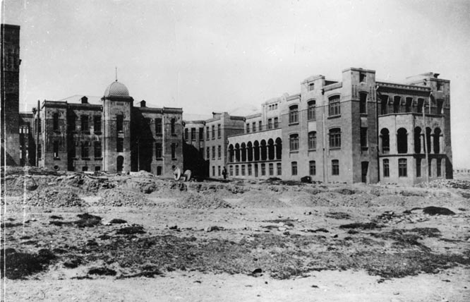 Musa Nagiyev's hospital